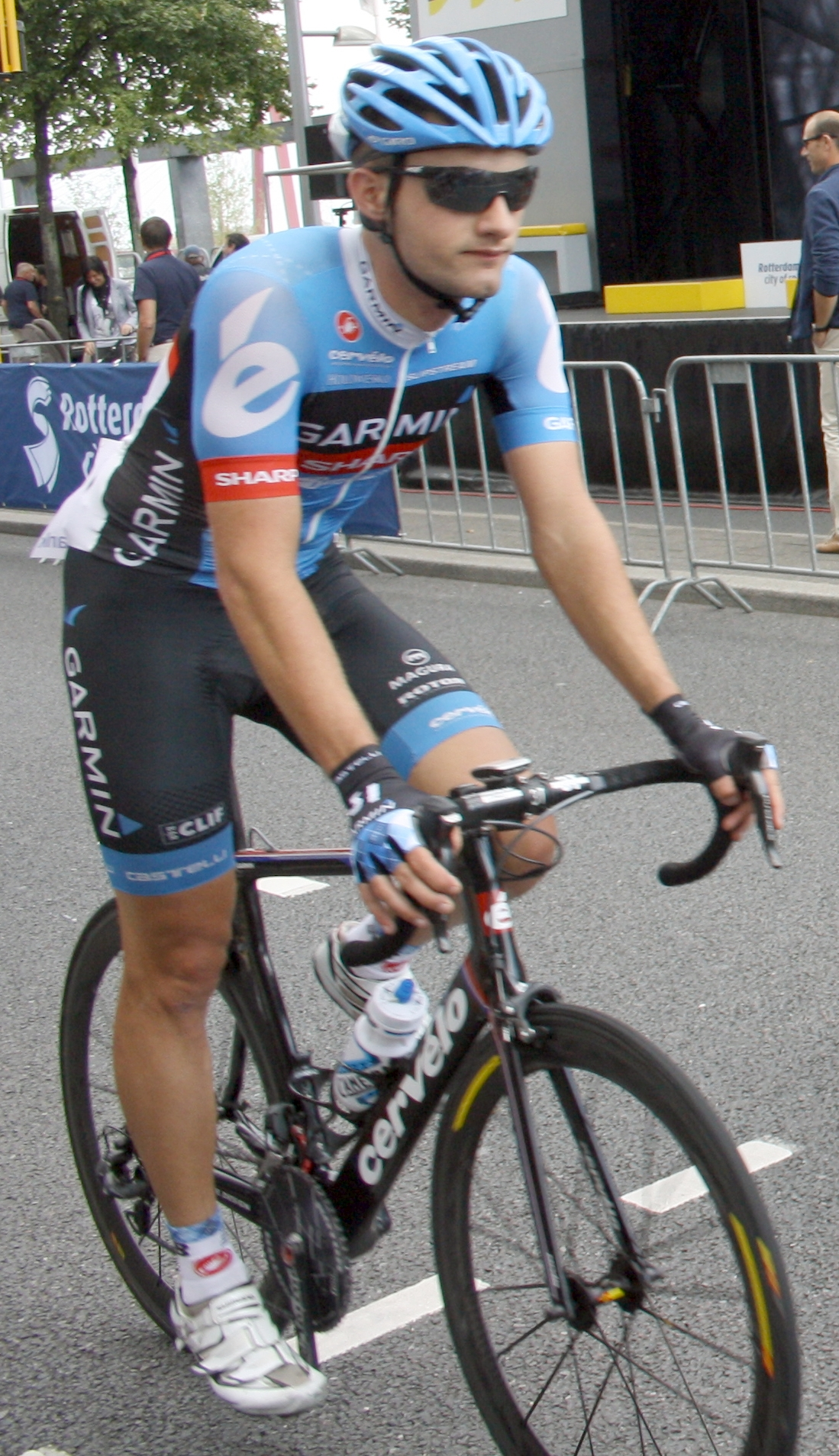 Jacob Rathe after the finish of the World Ports Classic 2012 in Rotterdam